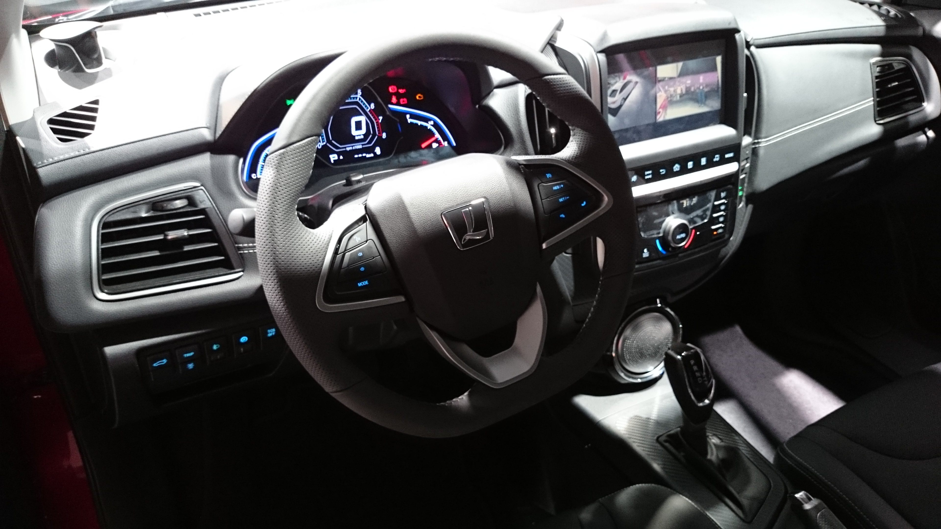 interior